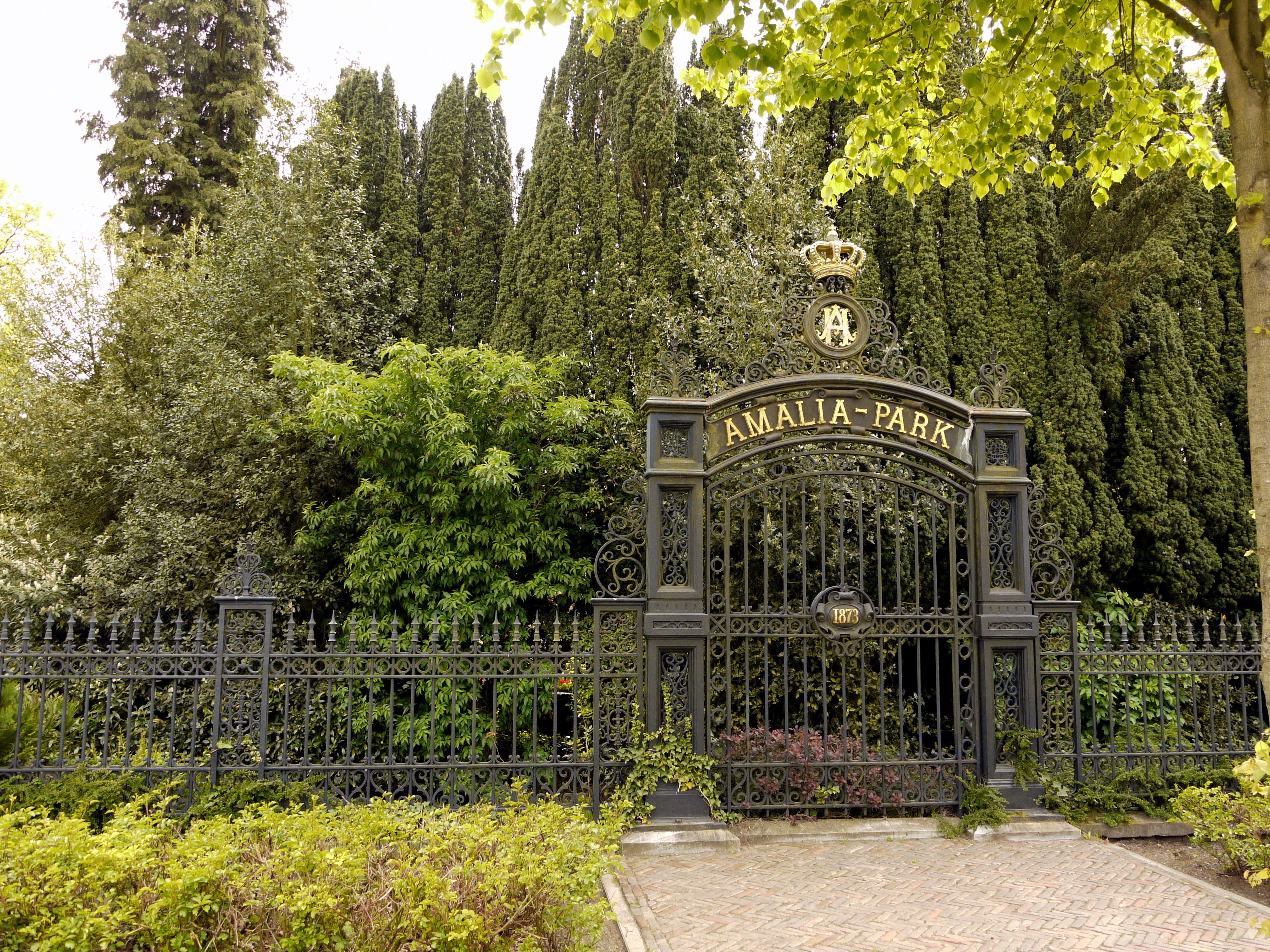 Gate of the Amaliapark in Baarn. Its national-monument number is 511734.